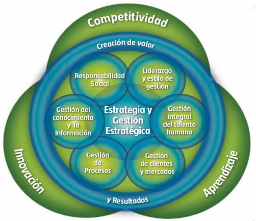 Excellence Model